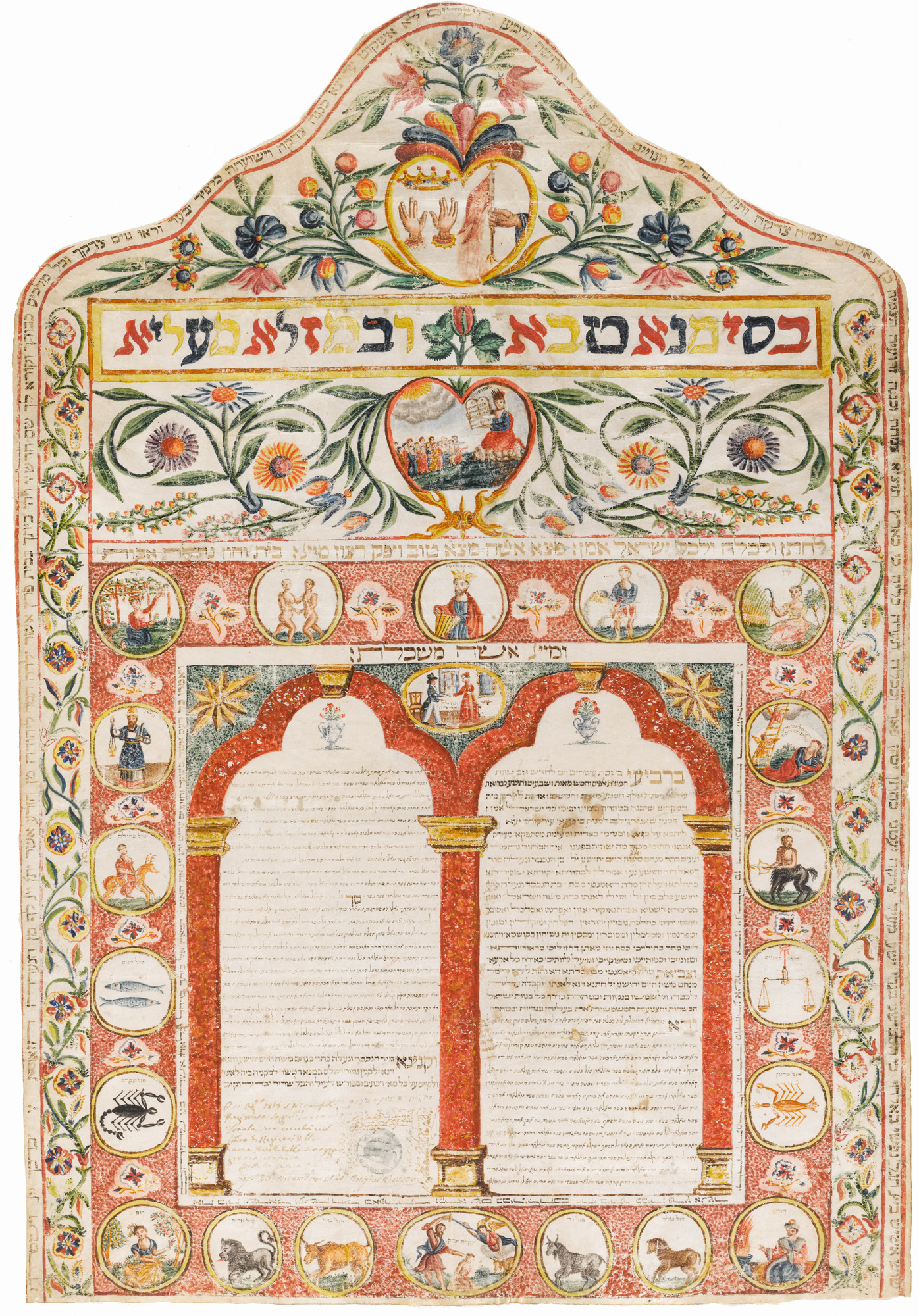 Ketubah from The Ketubot Collection of the National Library of Israel Marriage contract (Ketubbah) Corfu, Greece, 1819 Groom: Menahem Moses Hayyim Joshua, son of Raphael David Joshua Bride: Diamante, daughter of Joshua Calev Cohen Handwritten on parchment; ink and tempera H: 74.9 cm; W: 51 cm The Israel Museum, Jerusalem The Stieglitz Collection was donated to the Museum with the contribution of Erica and Ludwig Jesselson, New York, through American Friends of the Israel Museum B86.0155, 179/348 Published in: Benjamin, Chaya, The Stieglitz Collection: Masterpieces of Jewish Art, The Israel Museum, Jerusalem, 1987, English/Hebrew, p. 330